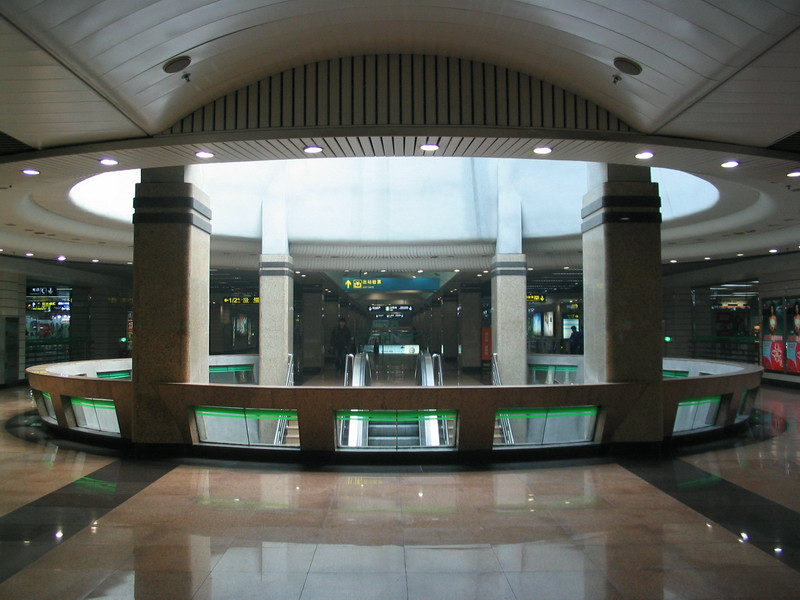 上海科技館站-2號線大堂 Line 2 Concourse of Shanghai Science & Technology Museum Station